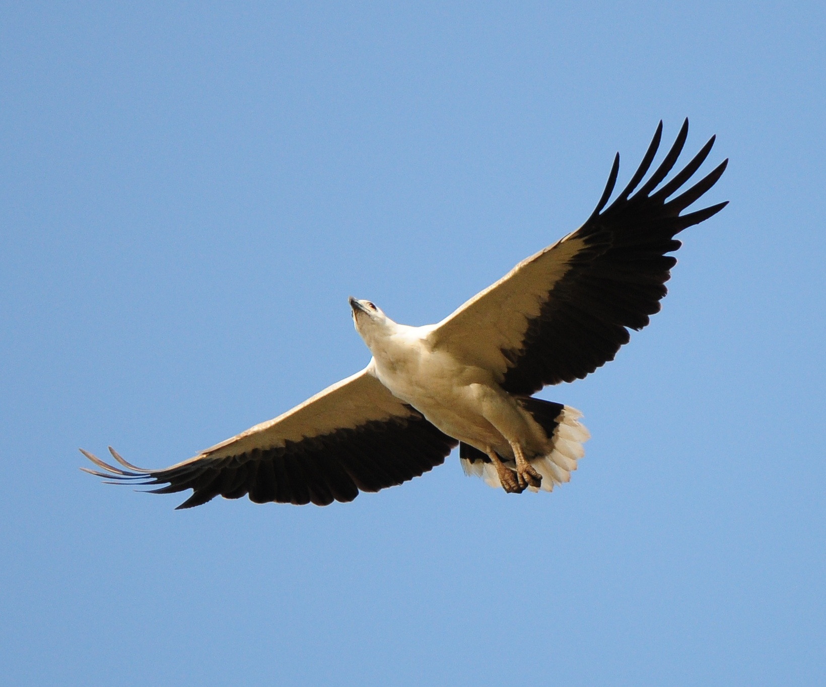 A White-bellied Sea Eagle flying in Karwar, Karnataka, India.